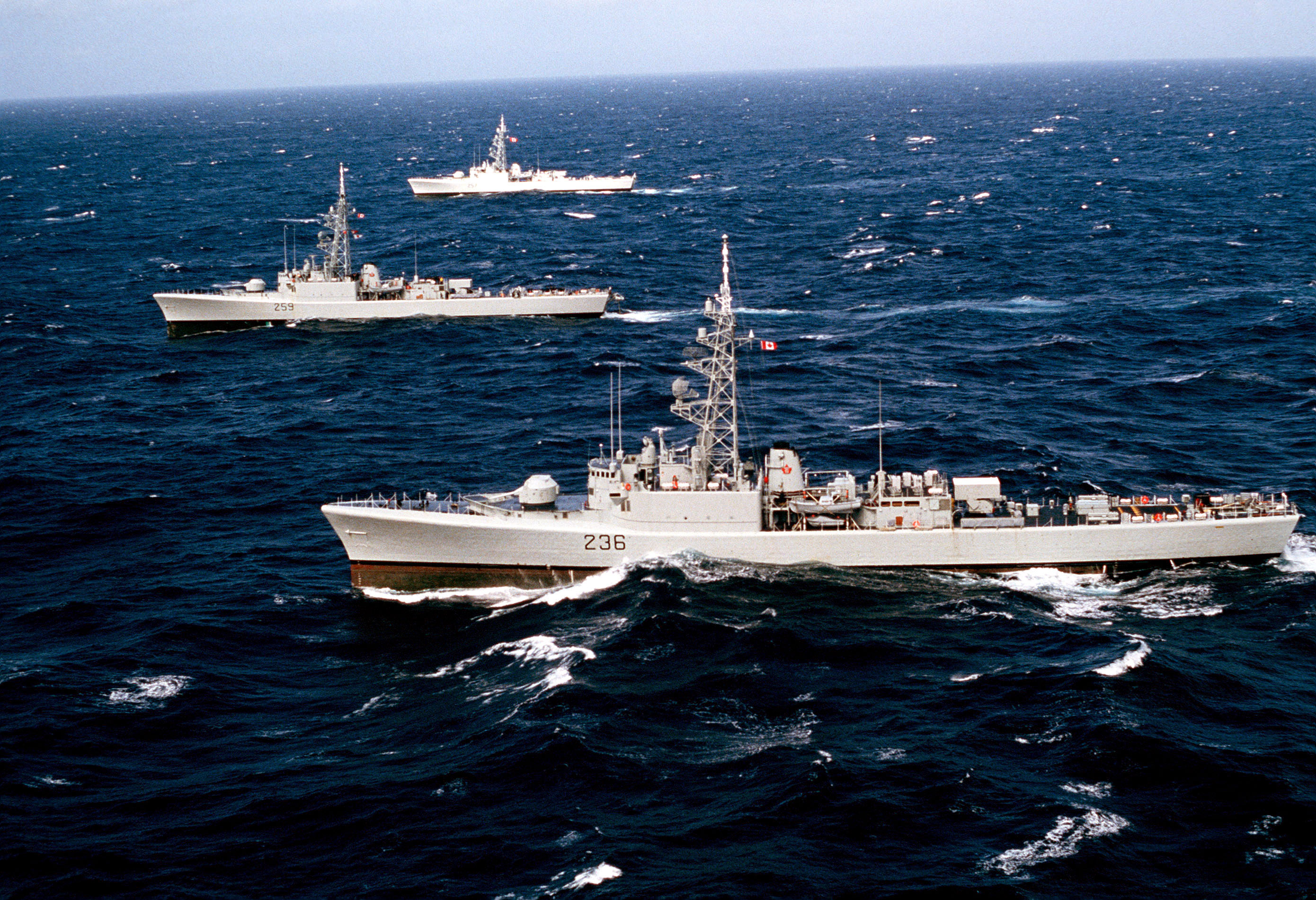 The Canadian frigates HMCS Restigouche (DDE 257), rear, HMCS Terra Nova (DDE 259), center, and HMCS Gatineau (DDE 236), front, underway during CINCPAC Exercise FLEETEX '83. The U.S. Navy, Air Force, Coast Guard and the Canadian navy were participating in the exercise near the Aleutian Islands of Alaska.